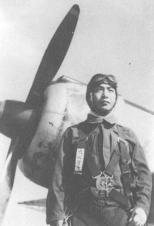 Imperial Japanese Army World War II ace Satoshi Anabuki. Anabuki was officially credited with 39 victories.